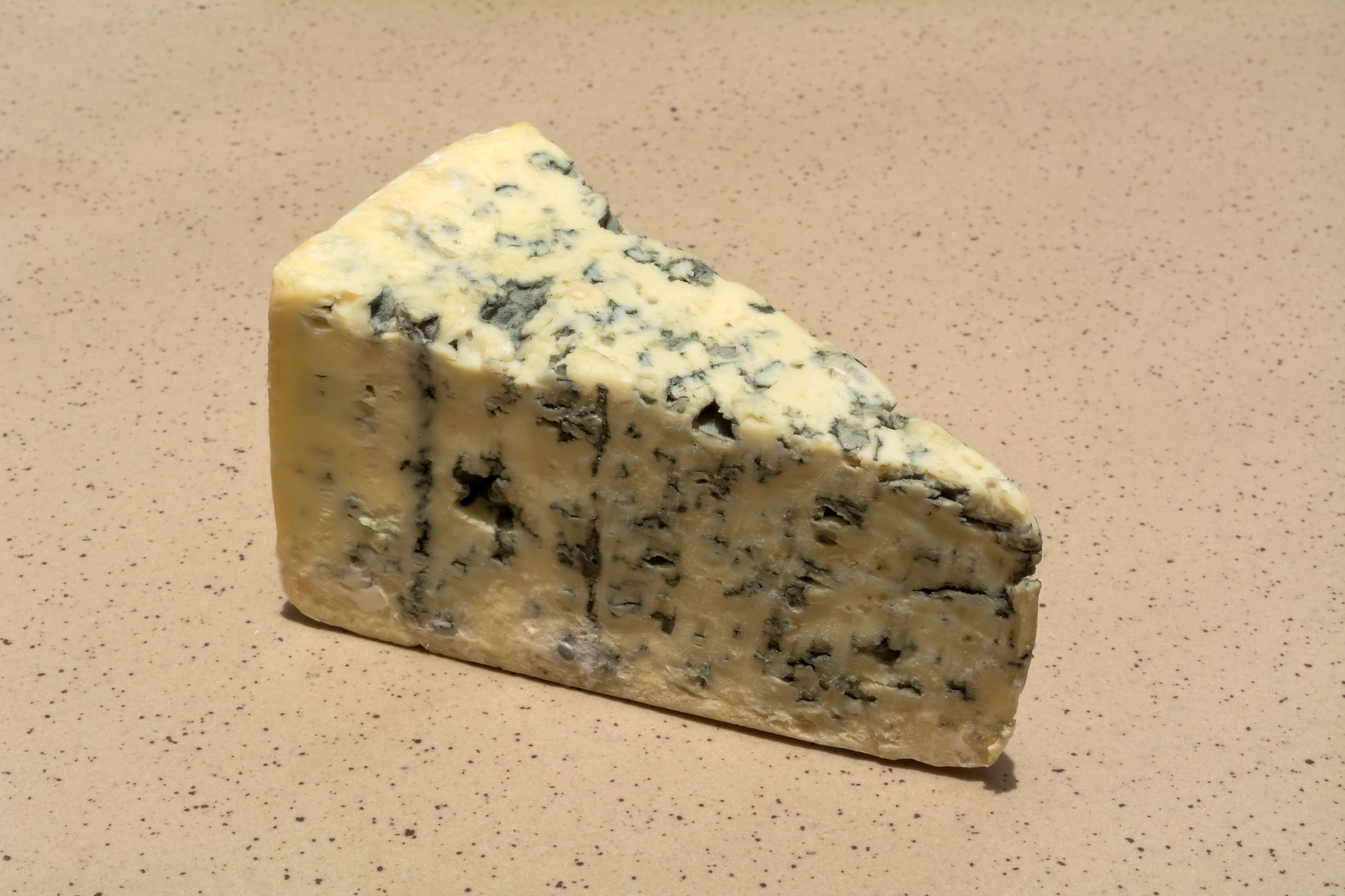 Österkron is a cheese with green veining produced in Austria. It is a soft cheese, made of cow´s milk and has a fat content of approx. 33% (55% F.i.t.).